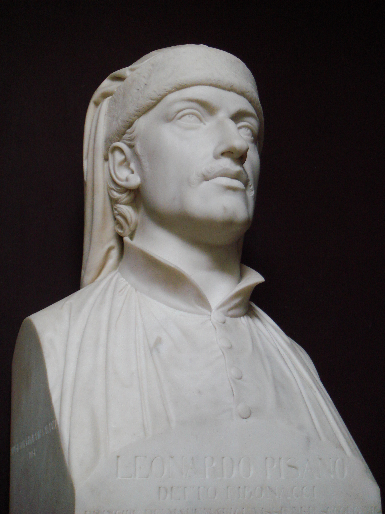 Leonardo of Pisa or Leonardo Pisano (Pisa, c. 1170 - Pisa, 1250), also known as Fibonacci. Bust of Bertel Thorvaldsen. Museo Thorvaldsen, Copenhagen. Picture by Stefano Bolognini.